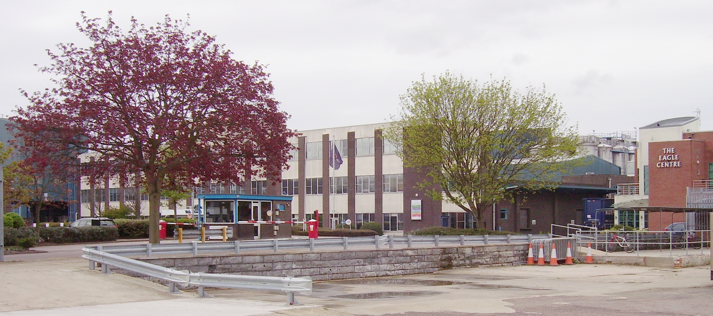 The entrance area to Charles Wells brewery in Queens Park, Bedford.